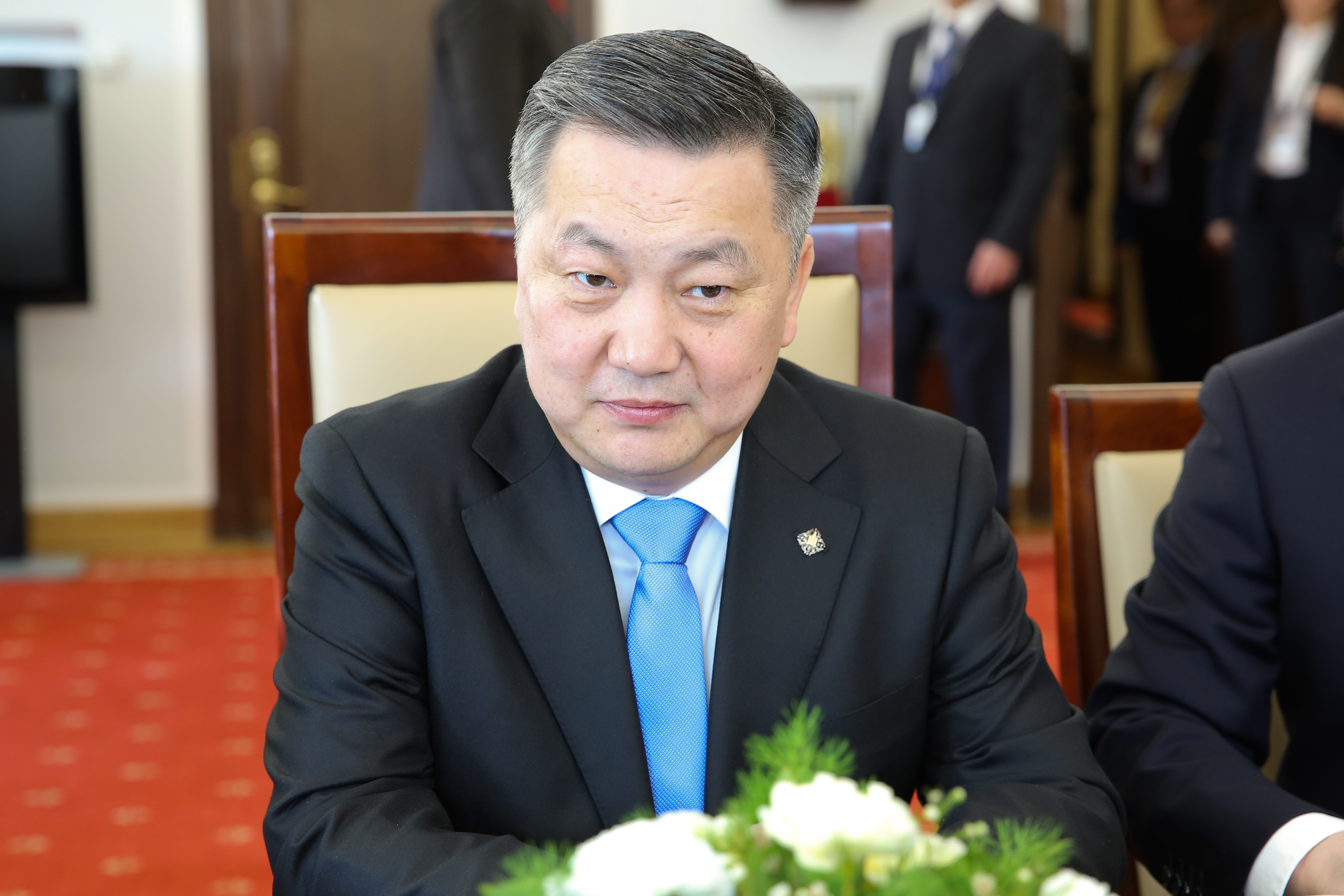 Chairman of the State Great Hural Zandaakhuu Enkhbold in the Polish Senate